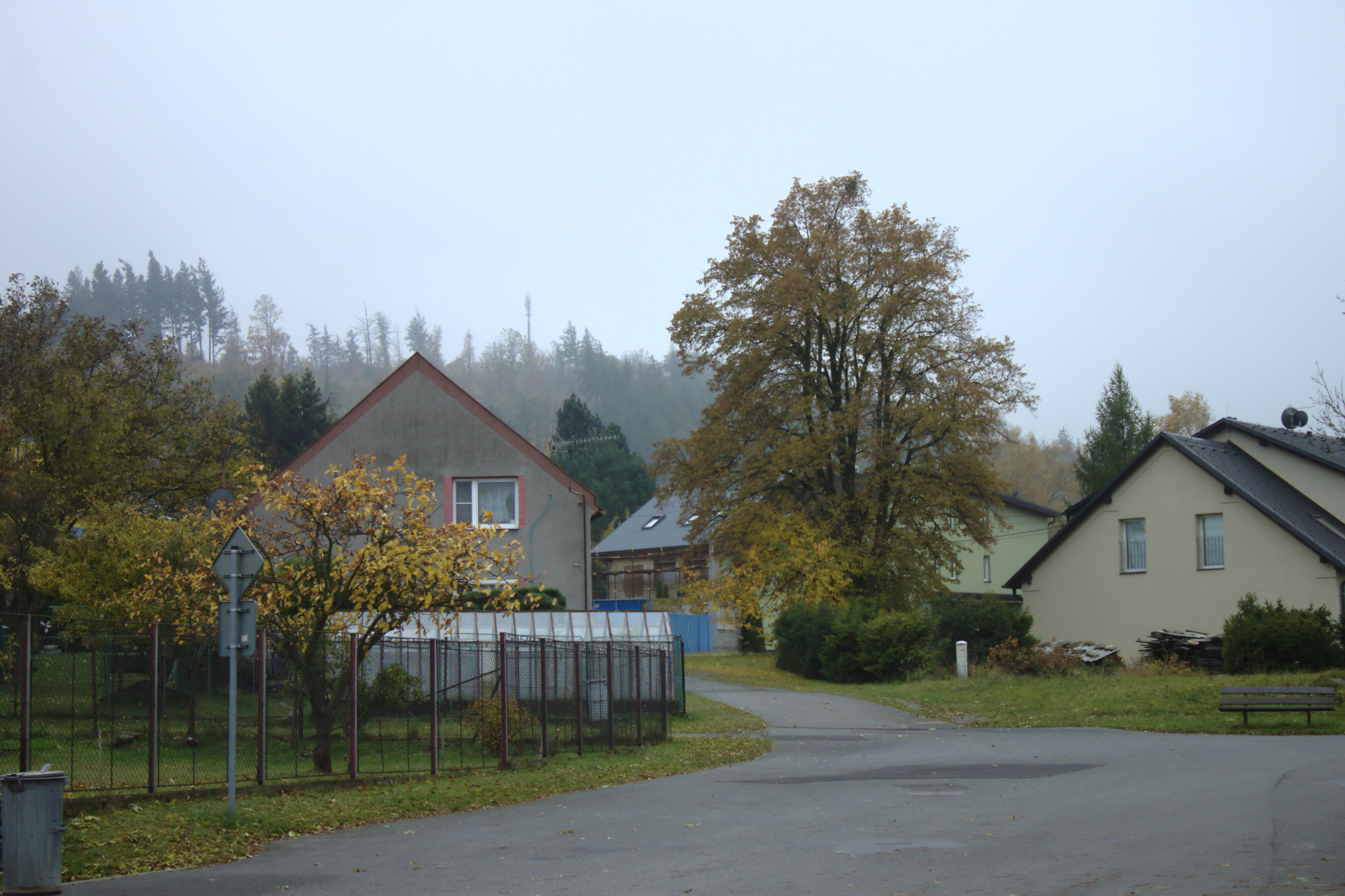 Buildings in the village of Luhy near Horní Benešov, CZ